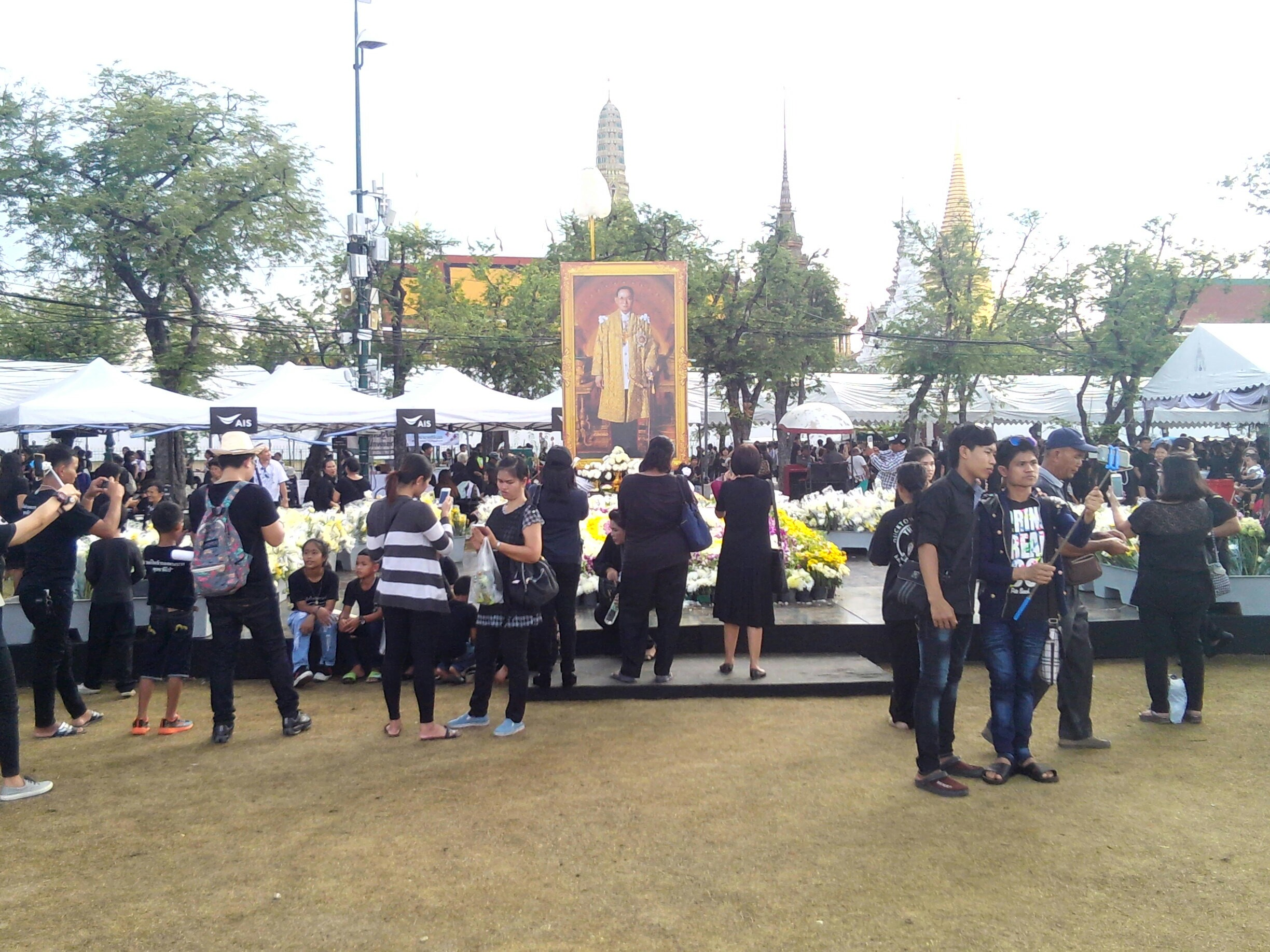 Photo of King Bhumibol Adulyadej Displayed To Mourning For King Bhumibol Adulyadej at Sanam Luang